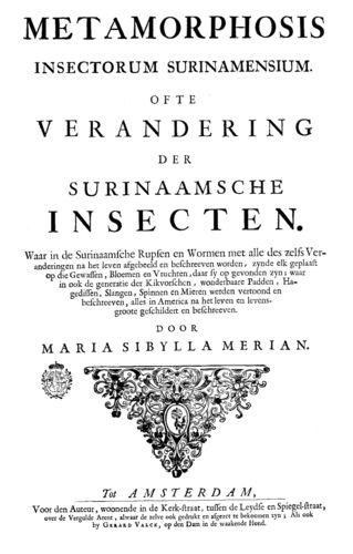 The cover page of the book Metamorphosis insectorum Surinamensium by Maria Sibylla Merian, published in 1705